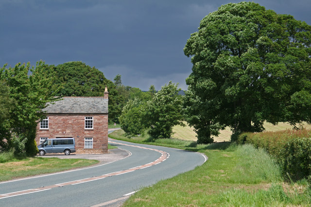 Belahbridge House View of Belahbridge House on the A685.